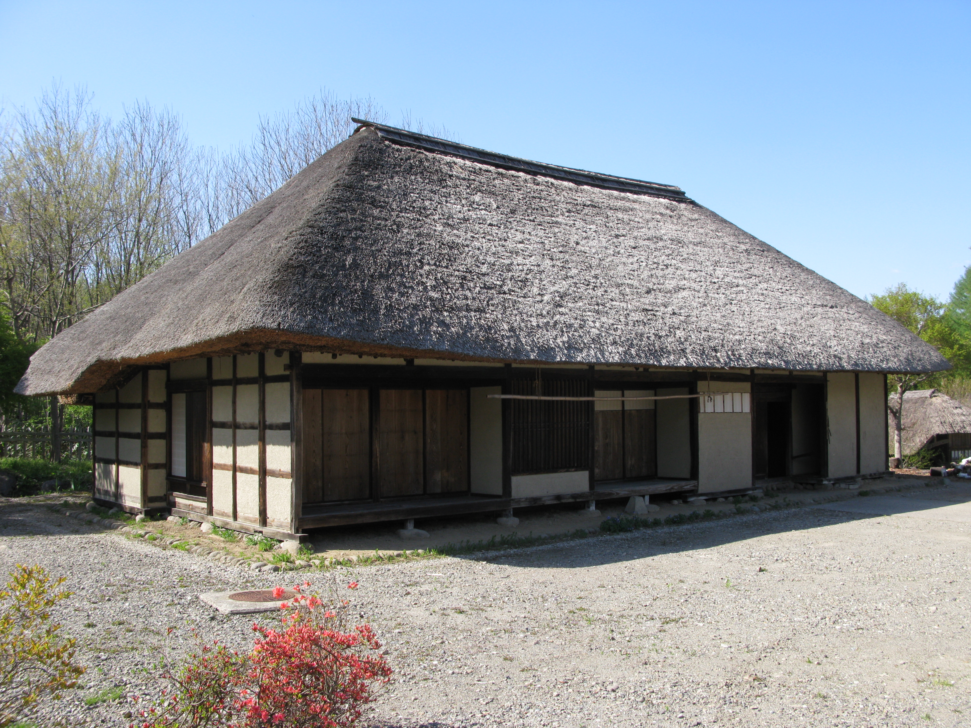 Old Otake-ke house "Imaizumi-no-Umayado", Minamiaizu-machi, Fukushima pref., Japan